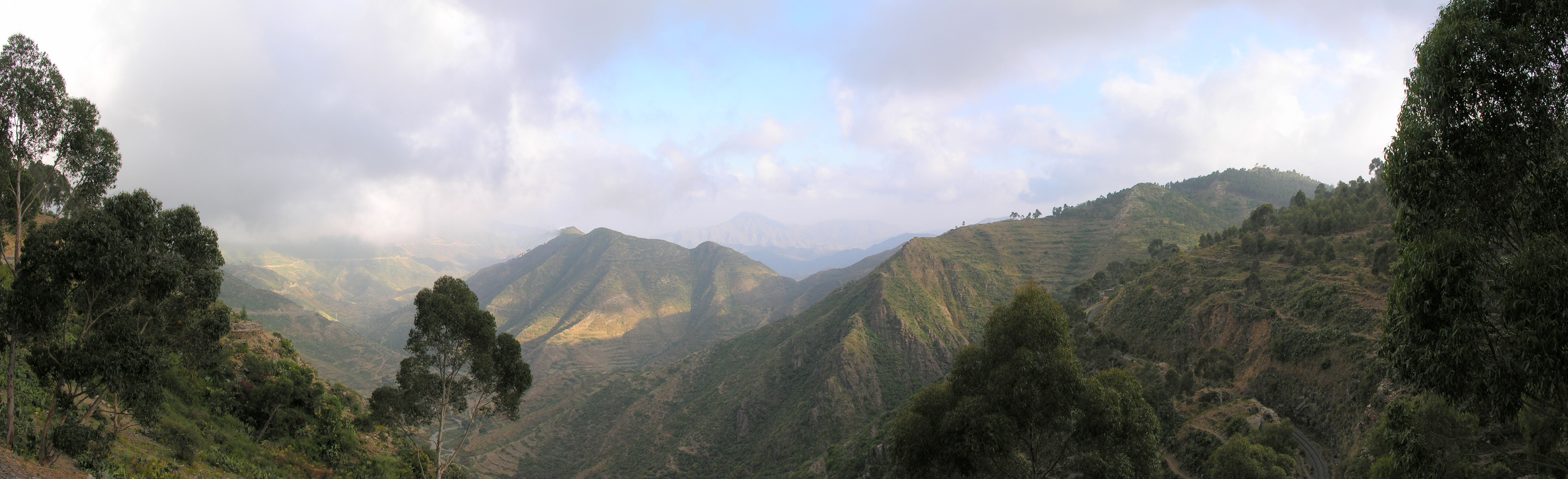 Between Asmara and Massawa